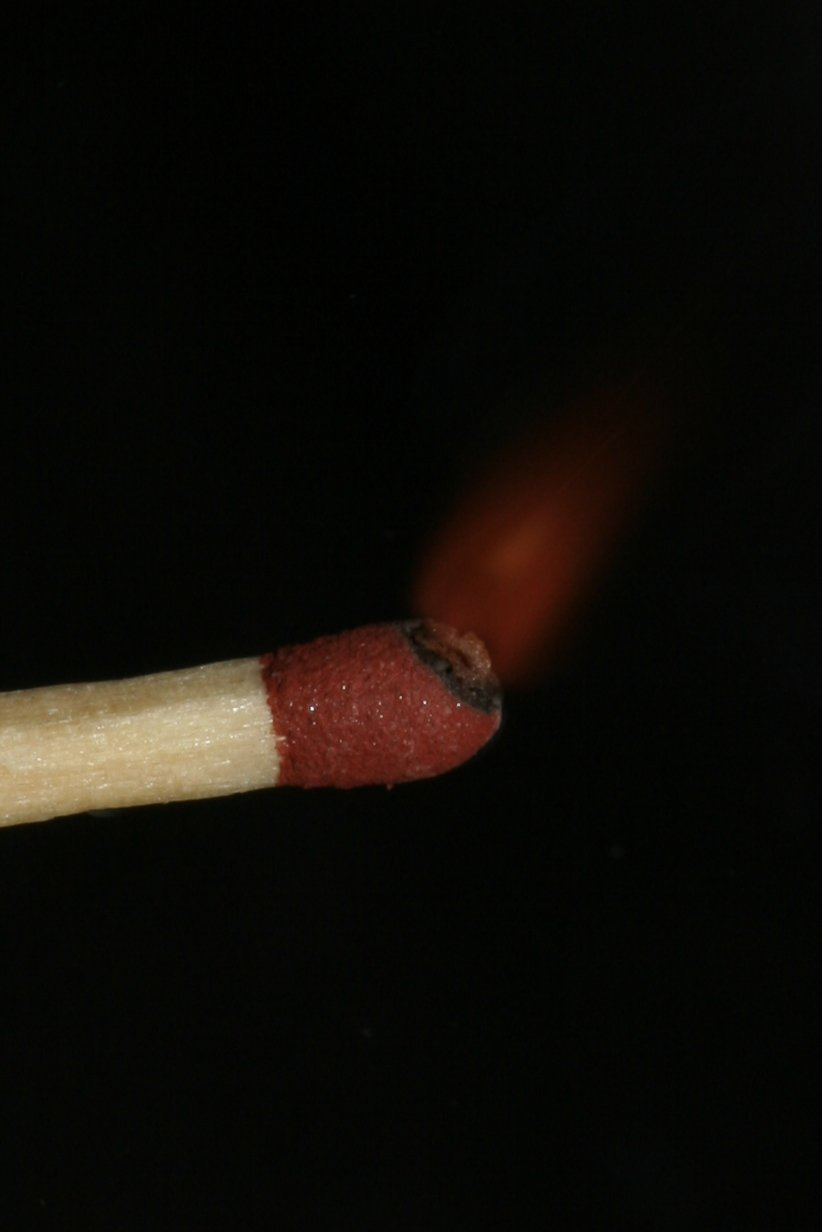 Ignition of a match.